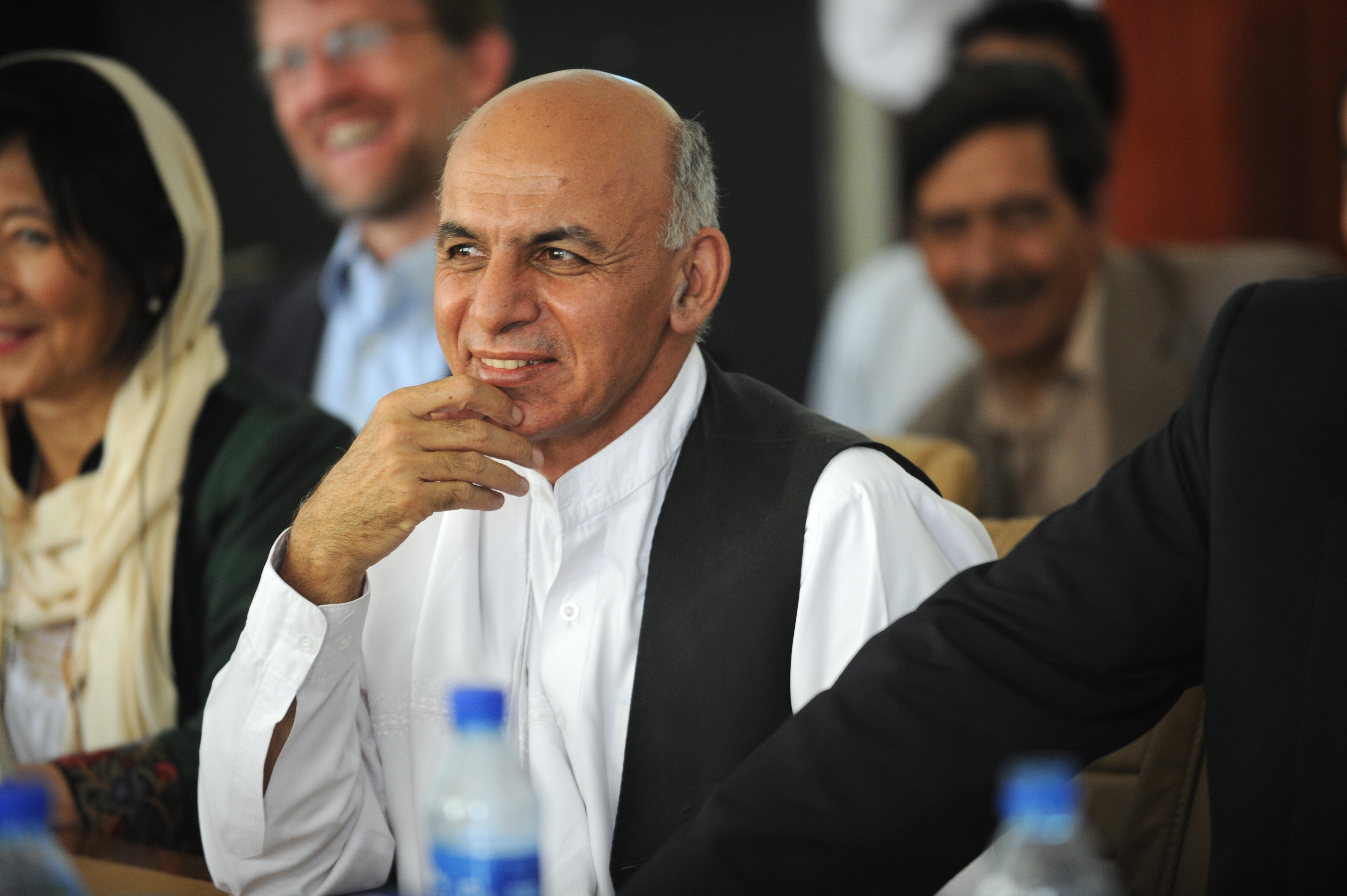 Dr. Ashraf Ghani attends a meeting with Governor Karim in Panjshir Province, Afghanistan.